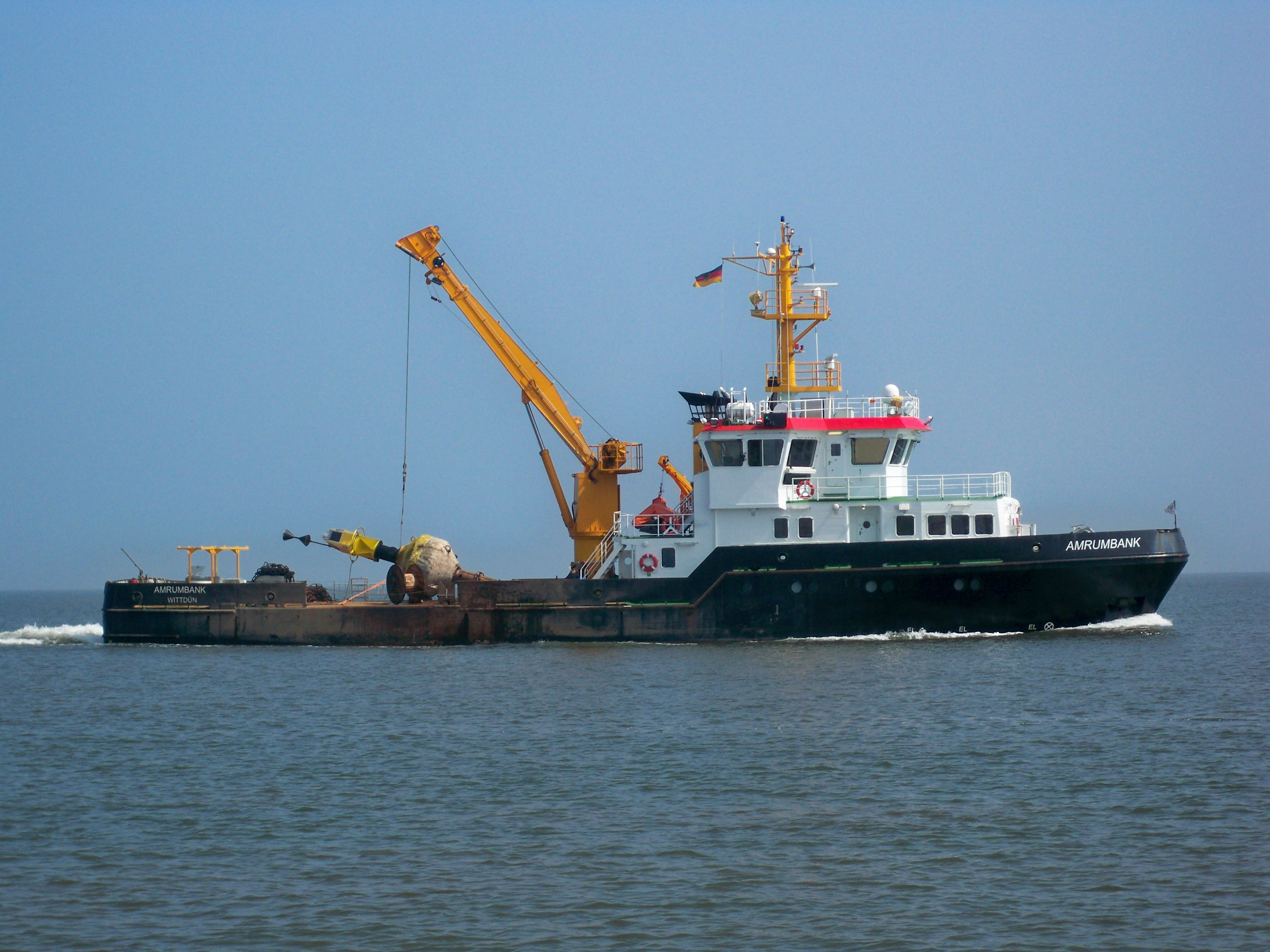 M/V Amrumbank near Amrum